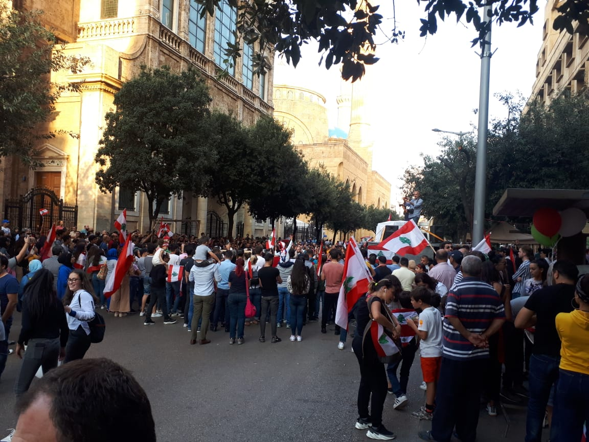 2019 Lebanese protests Beirut, 10 November 2019 L'eglise Maronite de St. George /St. Georges Maronite Church/ كنيسة سانت جورج